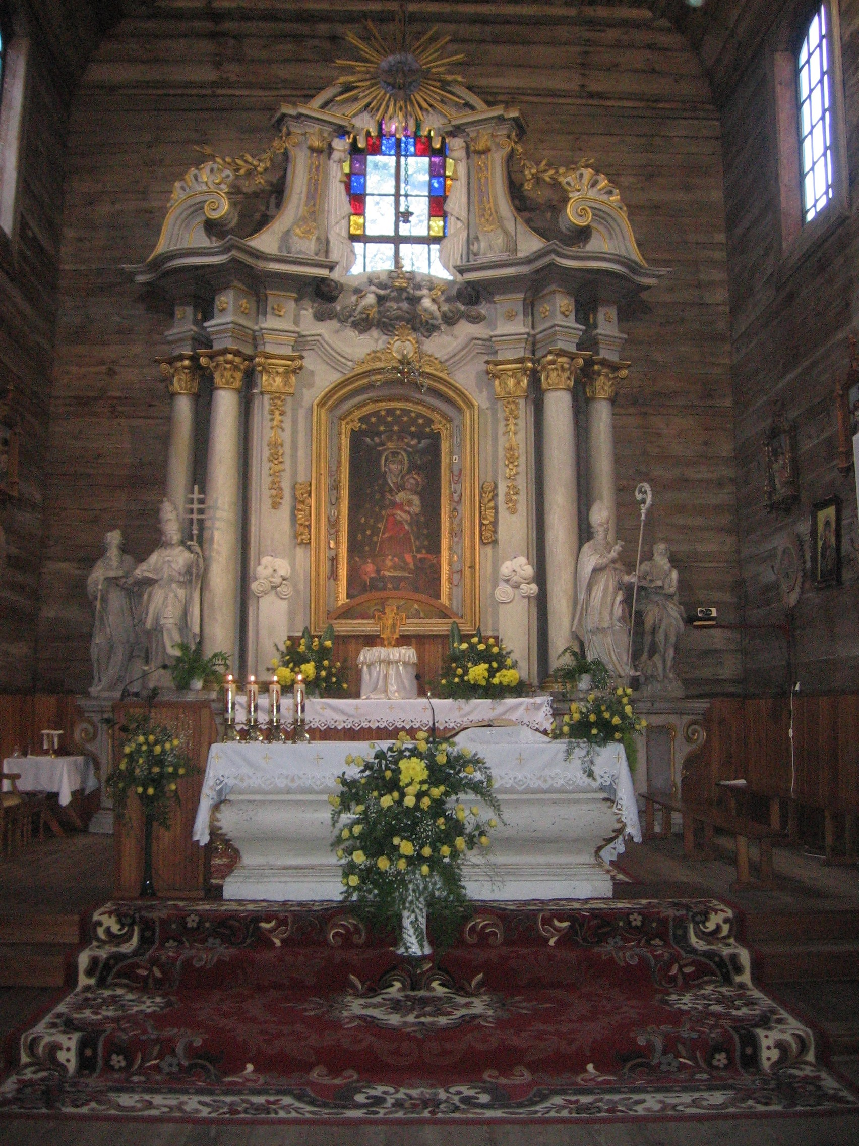 Author: Ciesielski Daniel, Ciesielski Karol Source: Own Work Description: Rococo altar, Church St. Szczepan in Mnichów (Poland)